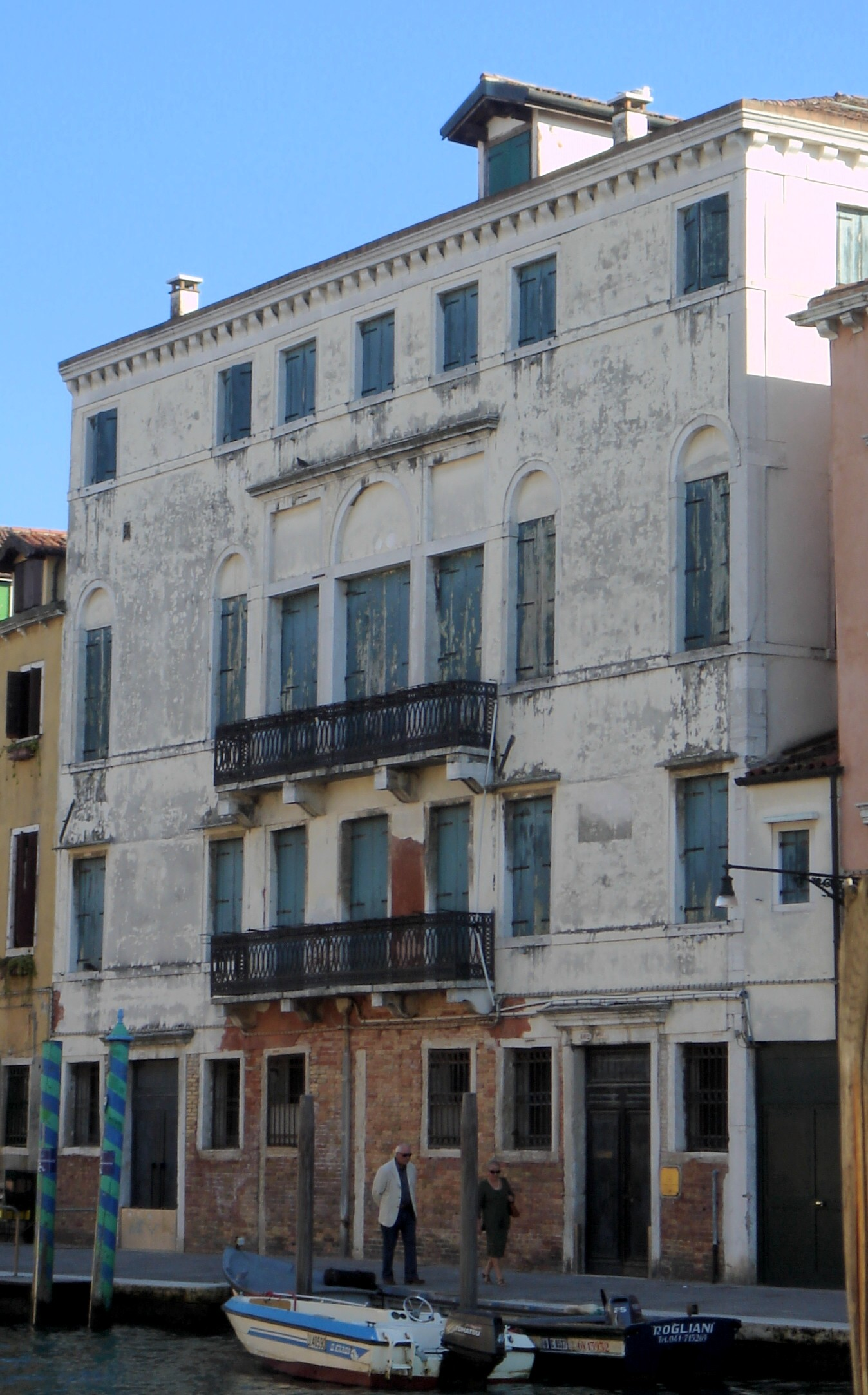 Venezia: Palazzo Bonfardini Vivante